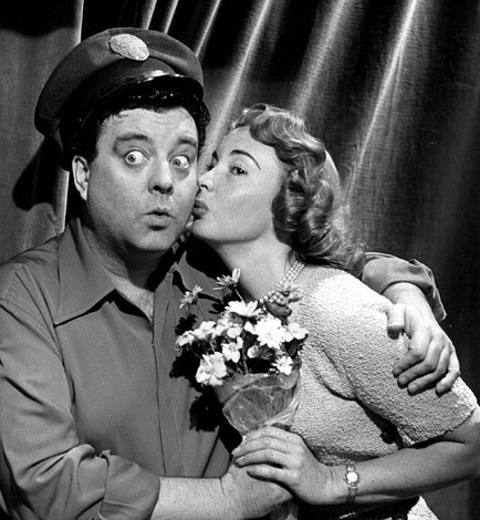 Promotional photo of Jackie Gleason and Audrey Meadows from The Jackie Gleason Show.